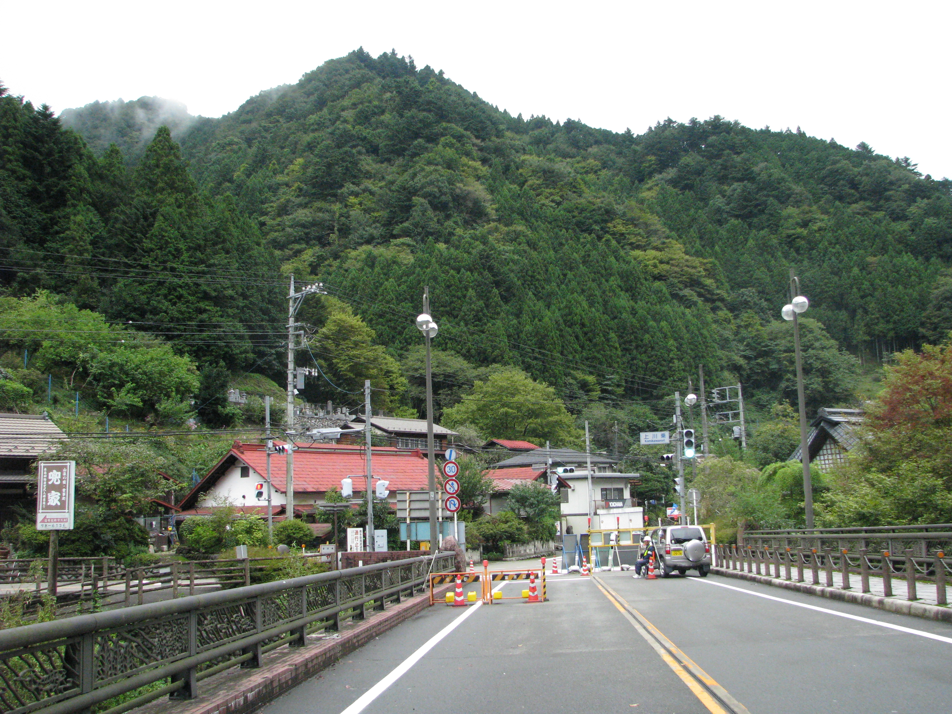 Tokyō metro road 33 Uenohara - Akiruno Line (for Itsukaichi), Hinohara V, Tokyo M.